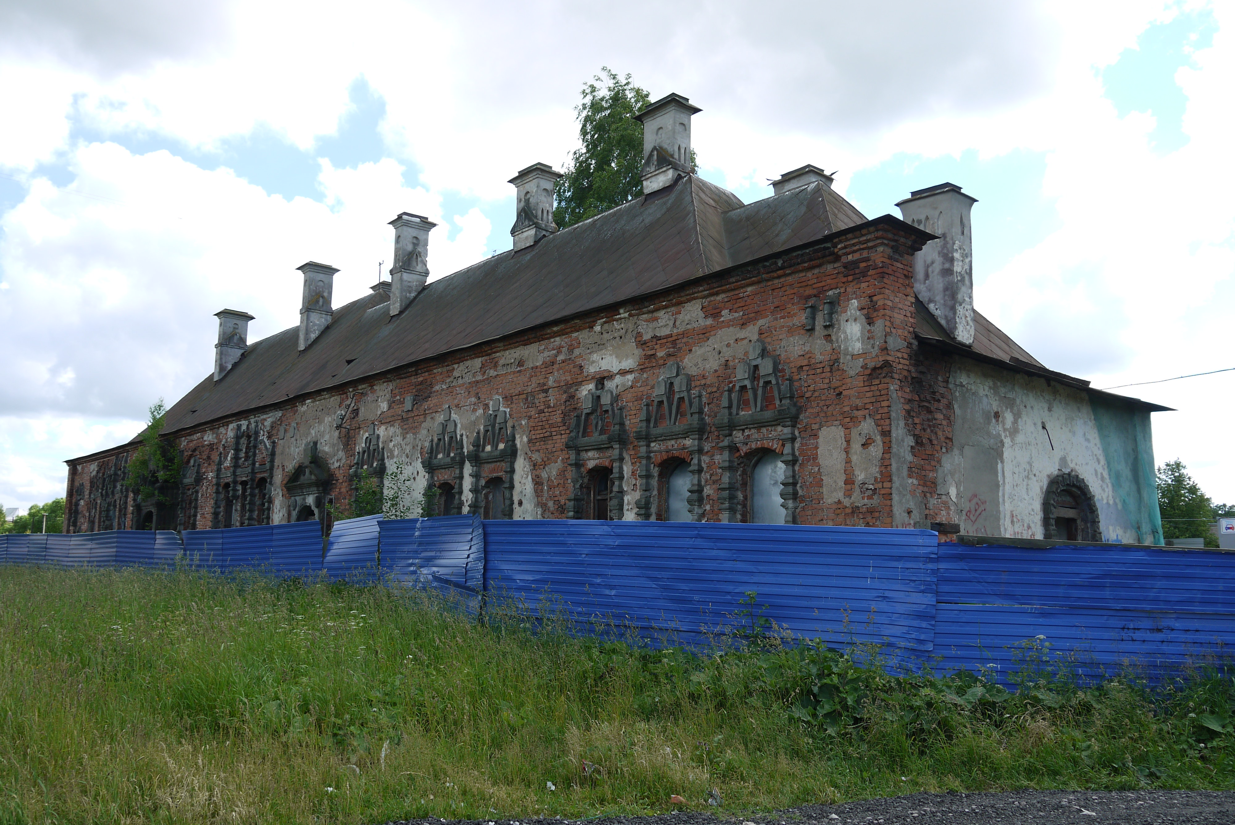 Tsar's Railway Station, Tsarskoye Selo, Akademicheski Prospect, from South East; Platfrom side